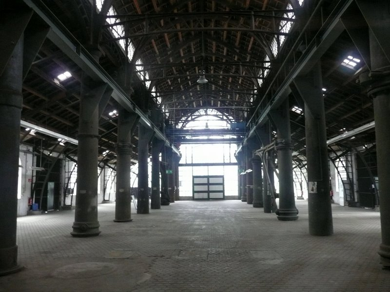 Sayner Huette in Bendorf-Sayn (Germany), interior. 1824-30 Architect: Carl Ludwig Althans.